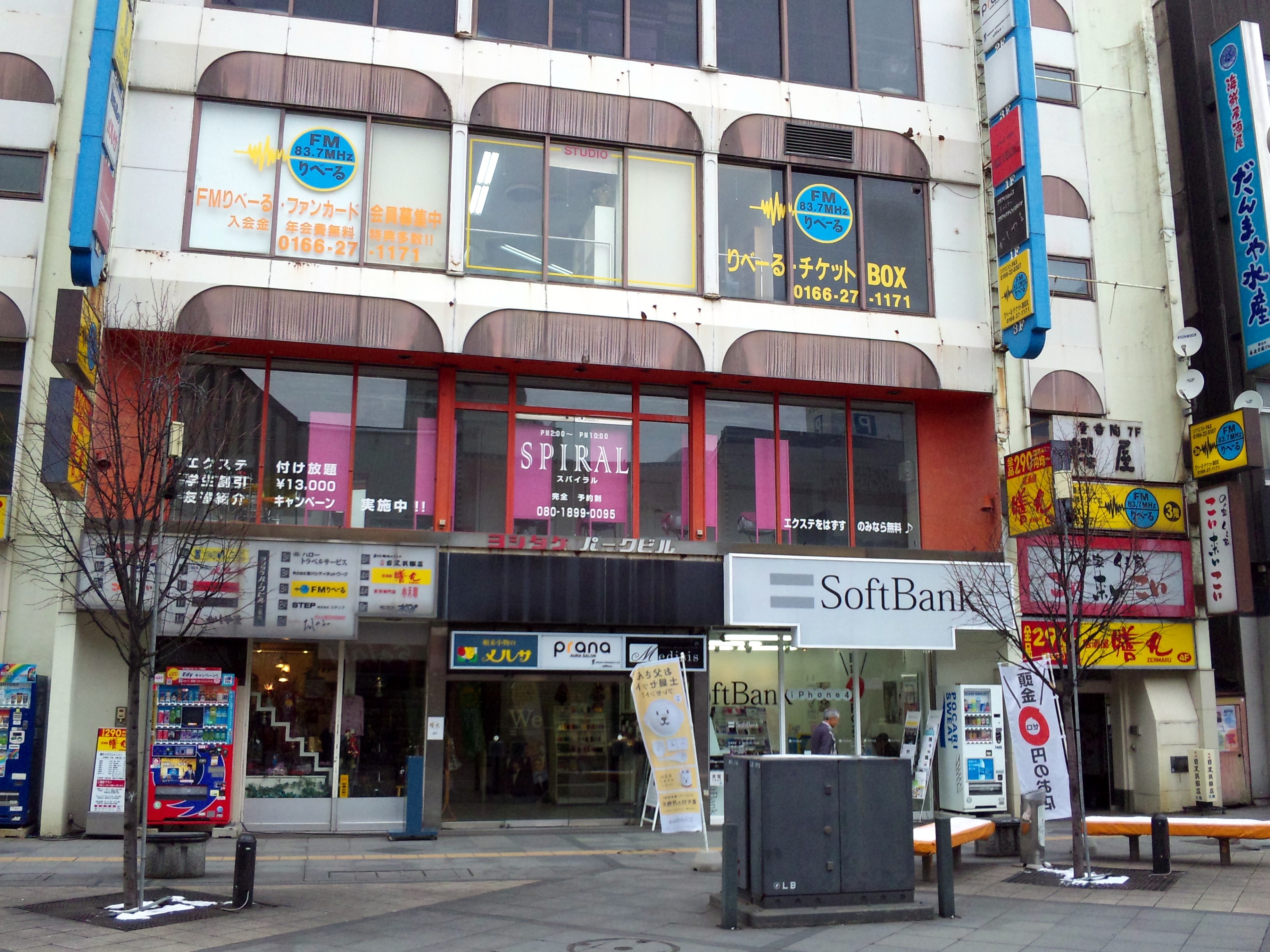 Asahikawa city network (3F), a community FM radio station in Hokkaido, Japan